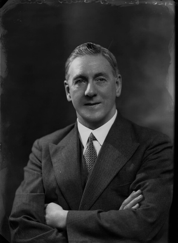 Lord Citrine